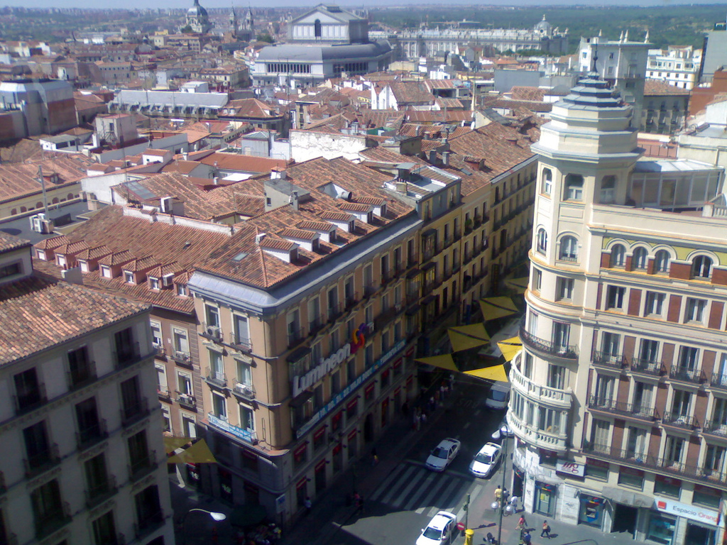 Partial view of Centro district in Madrid (Spain). Image taken from a building at Plaza del Callao (square). In the foreground, Calle de Preciados (street). In the background, Teatro Real (opera house and concert hall).